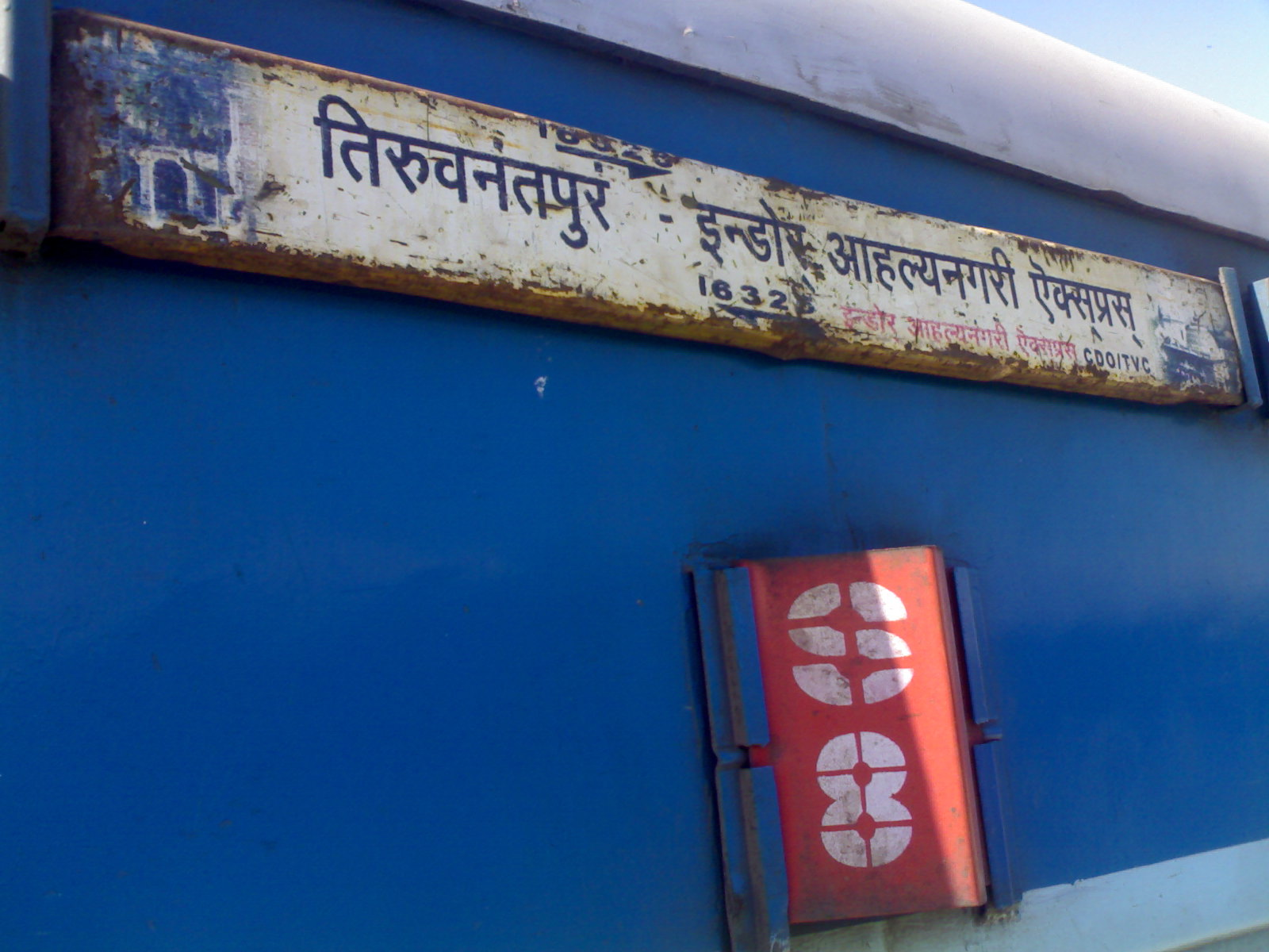 misspelled of Indore in Hindi on Sleeper coach of Ahilyanagari Express at Indore Junction in Madhya Pradesh